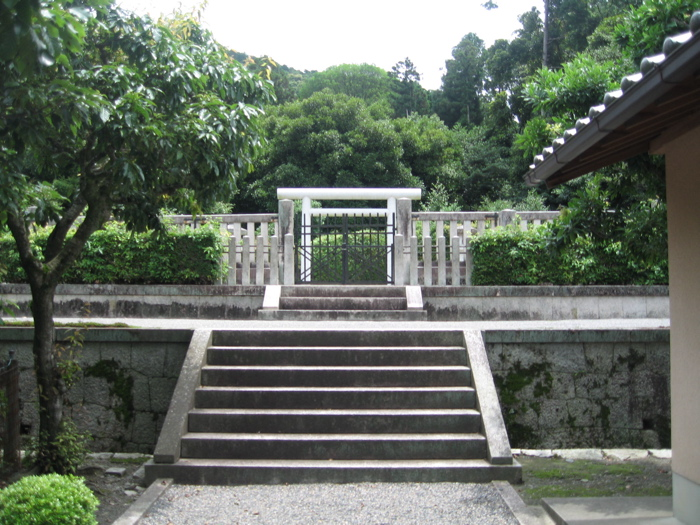 The tomb of Emperor Reizei (冷泉天皇) in Kyoto, front view.